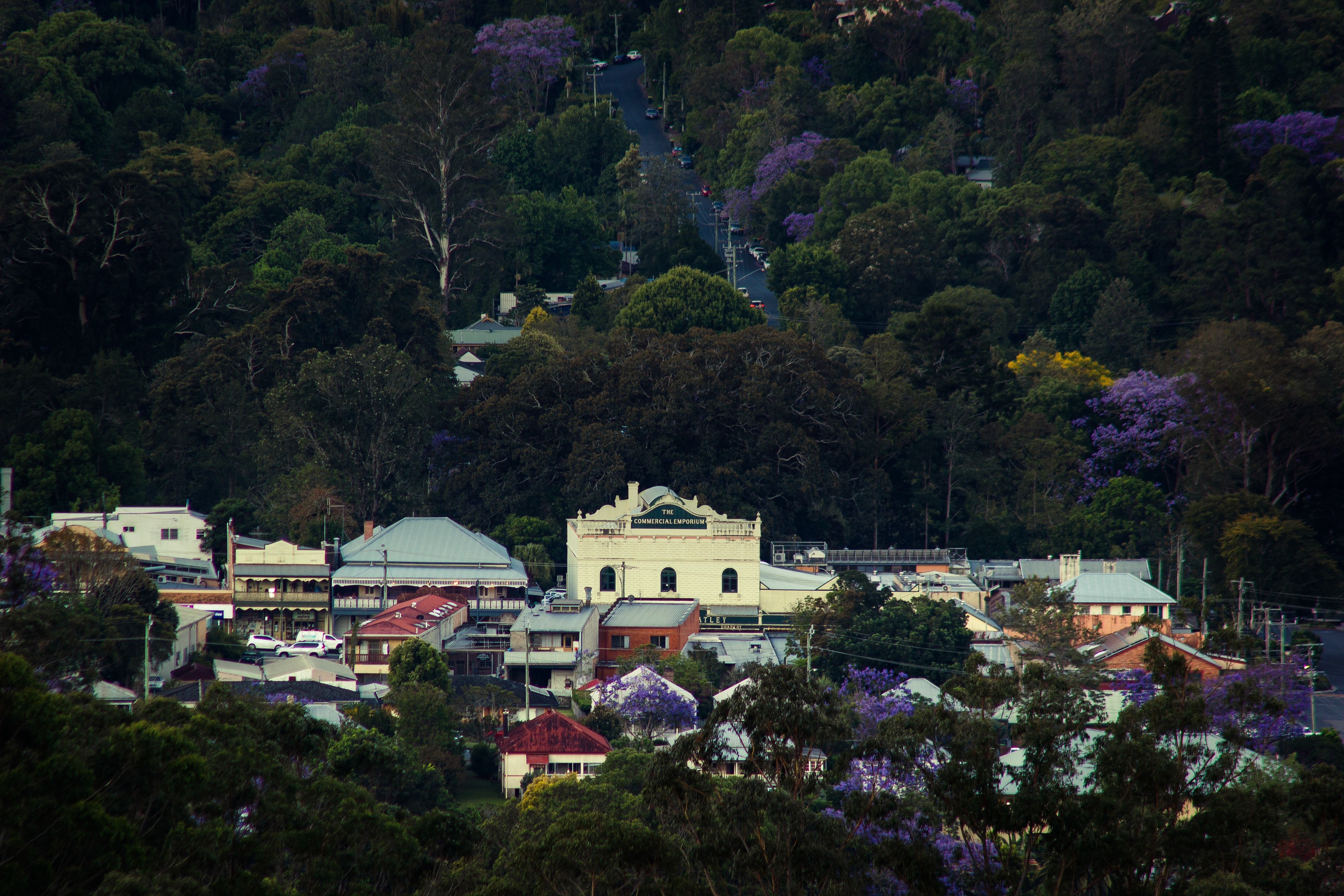 The view of Bellingen from the south. Image taken in early 2020.